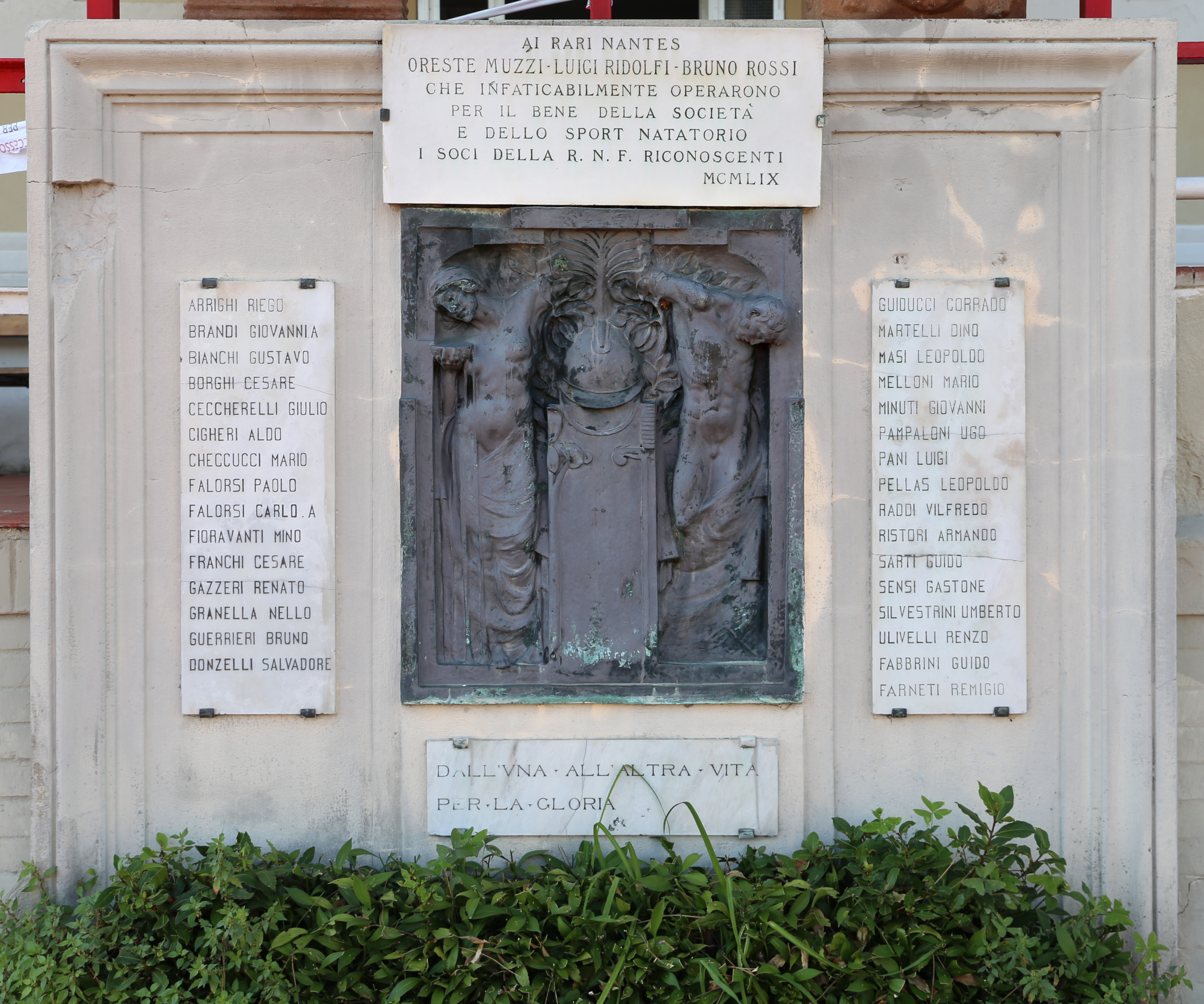 Sede della Rari Nantes Florentia